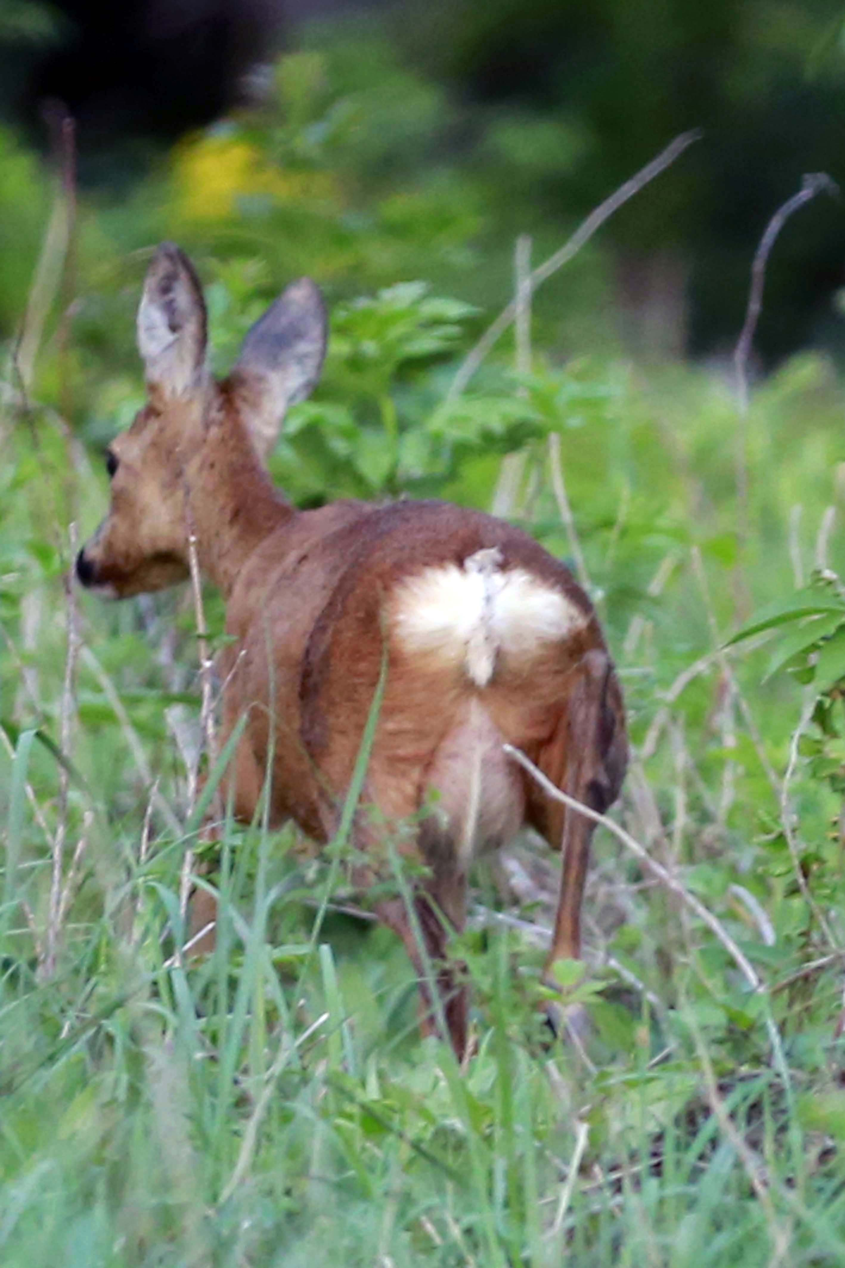 Female deer with clearly visible udder while passing time in the midst of may. Deer is in summer fur, its coat has largely changed.